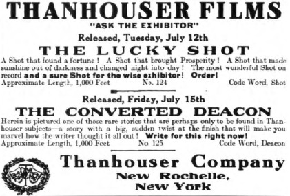 An advertisement for The Converted Deacon in Billboard magazine.